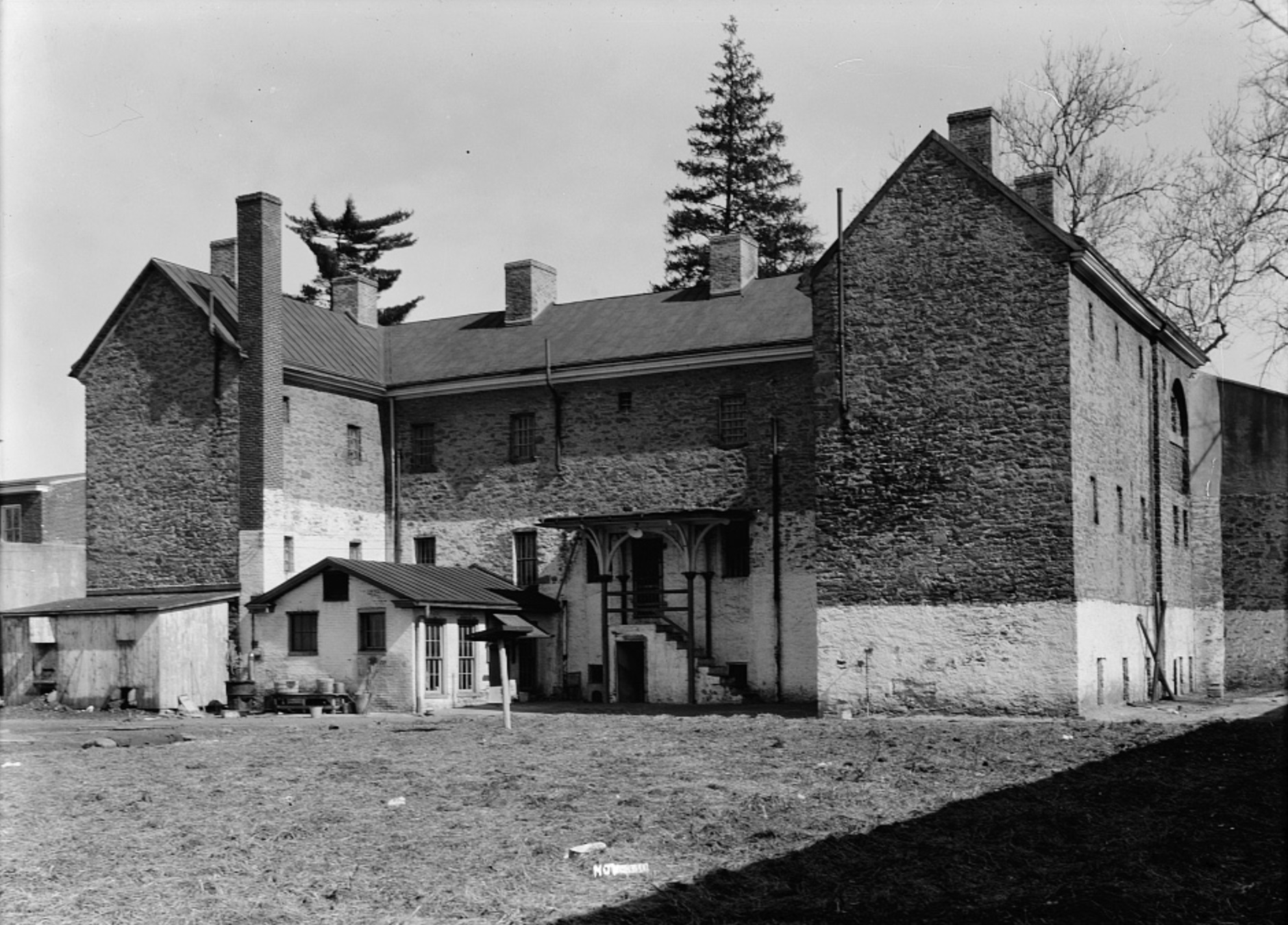 Burlington County Prison, 128 High Street, Mount Holly (Burlington County, New Jersey) (cropped)